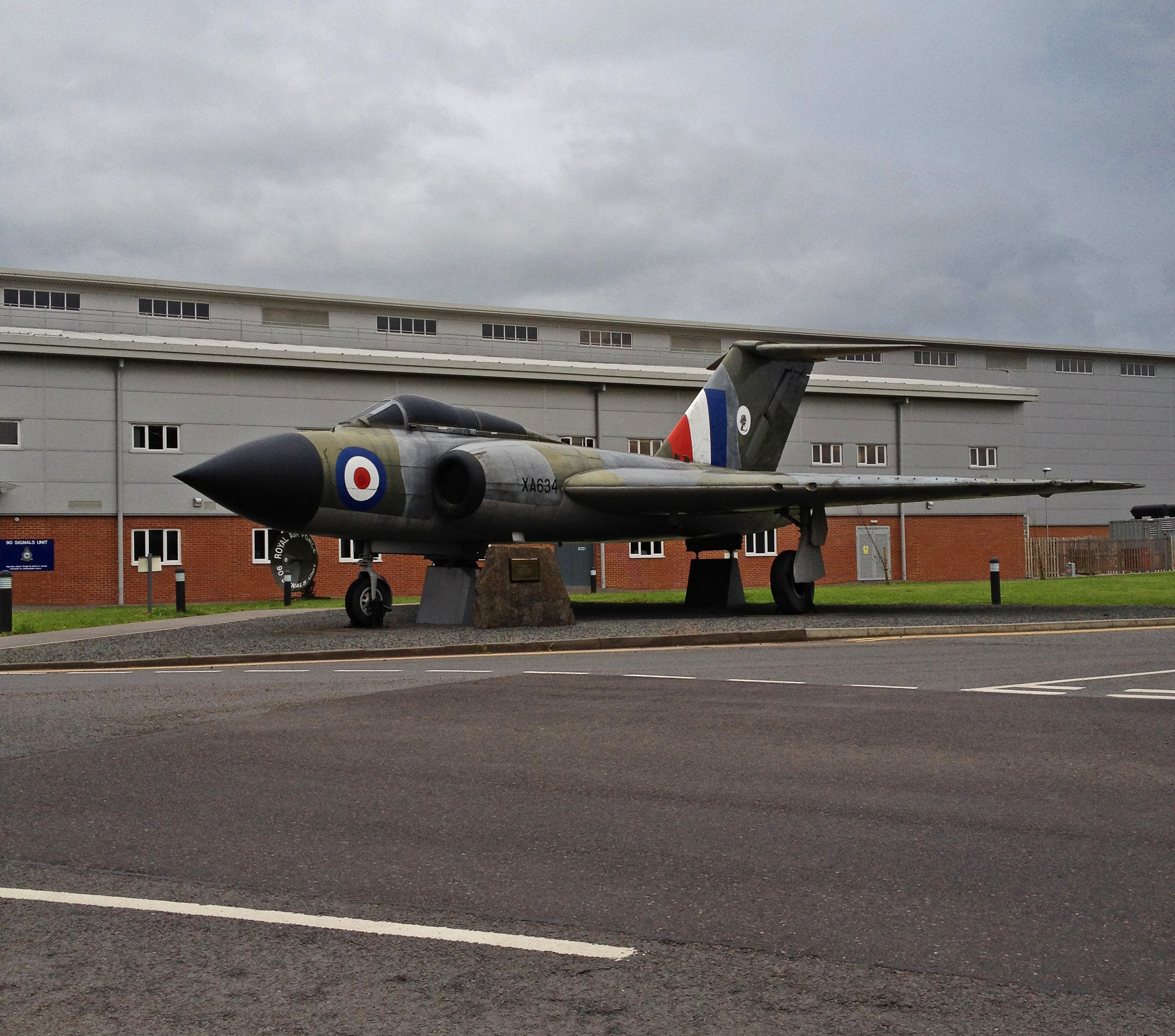 RAF Leeming Gate Guard - taken on mobile phone so major quality issues.